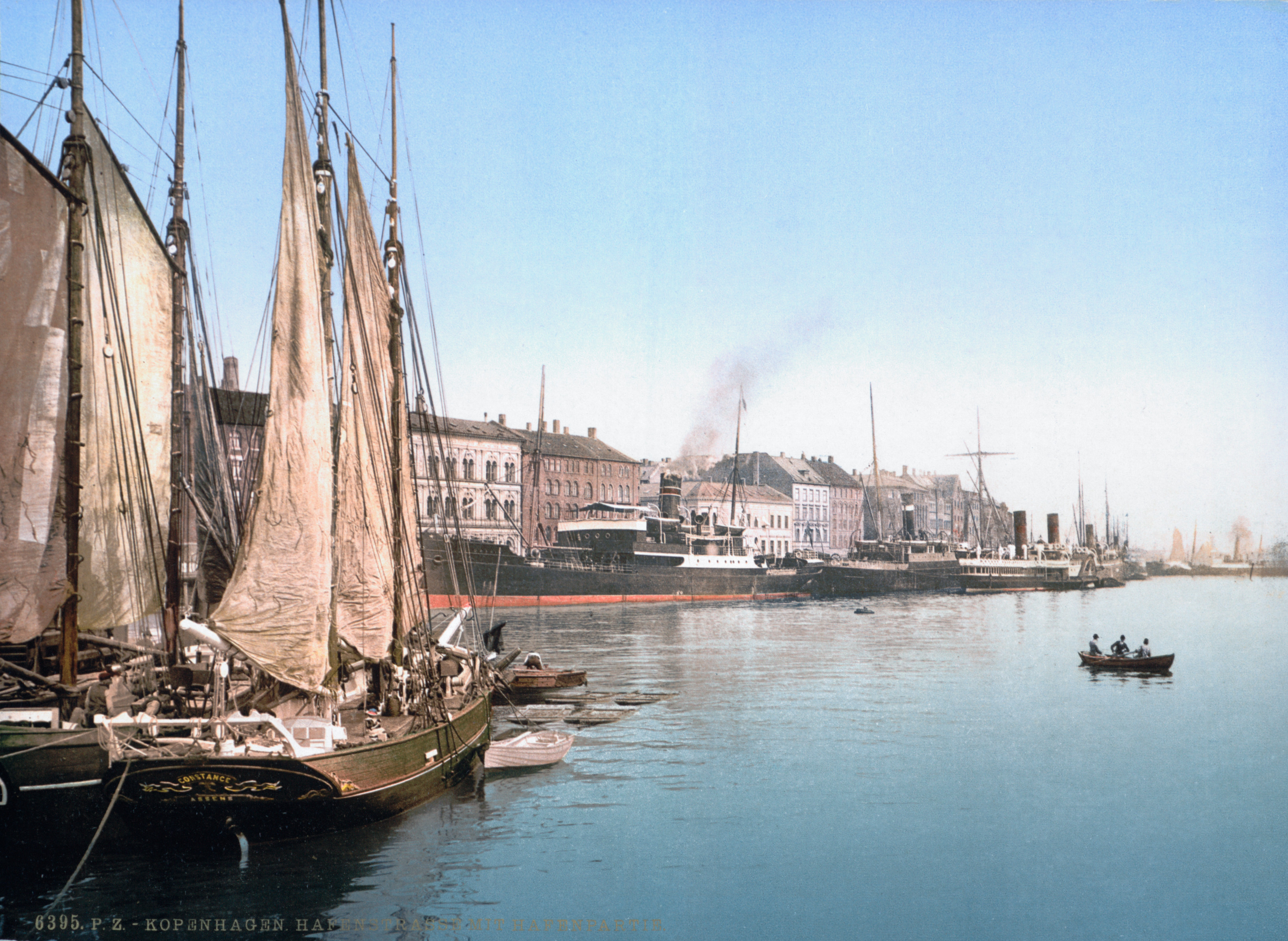 Havnegade, Copenhagen, Denmark. The image itself has the street name translated into German as "Hafenstrasse". [between ca. 1890 and ca. 1900]. 1 photomechanical print : photochrom, color. Notes: Title from the Detroit Publishing Co., catalogue J, foreign section. Detroit, Mich. : Detroit Publishing Company, c1905. Print no. 6395. Forms part of: Views of architecture and other sites in Copenhagen, Denmark in the Photochrom print collection. Subjects: Denmark--Copenhagen. Format: Photochrom prints--Color--1890-1900. Repository: Library of Congress, Prints and Photographs Division, Washington, D.C. 20540 USA, Part Of: Views of architecture and other sites in Copenhagen, Denmark (DLC) 2001697980 More information about the Photochrom Print Collection is available at Persistent URL: Call Number: LOT 13421, no. 010 [item]